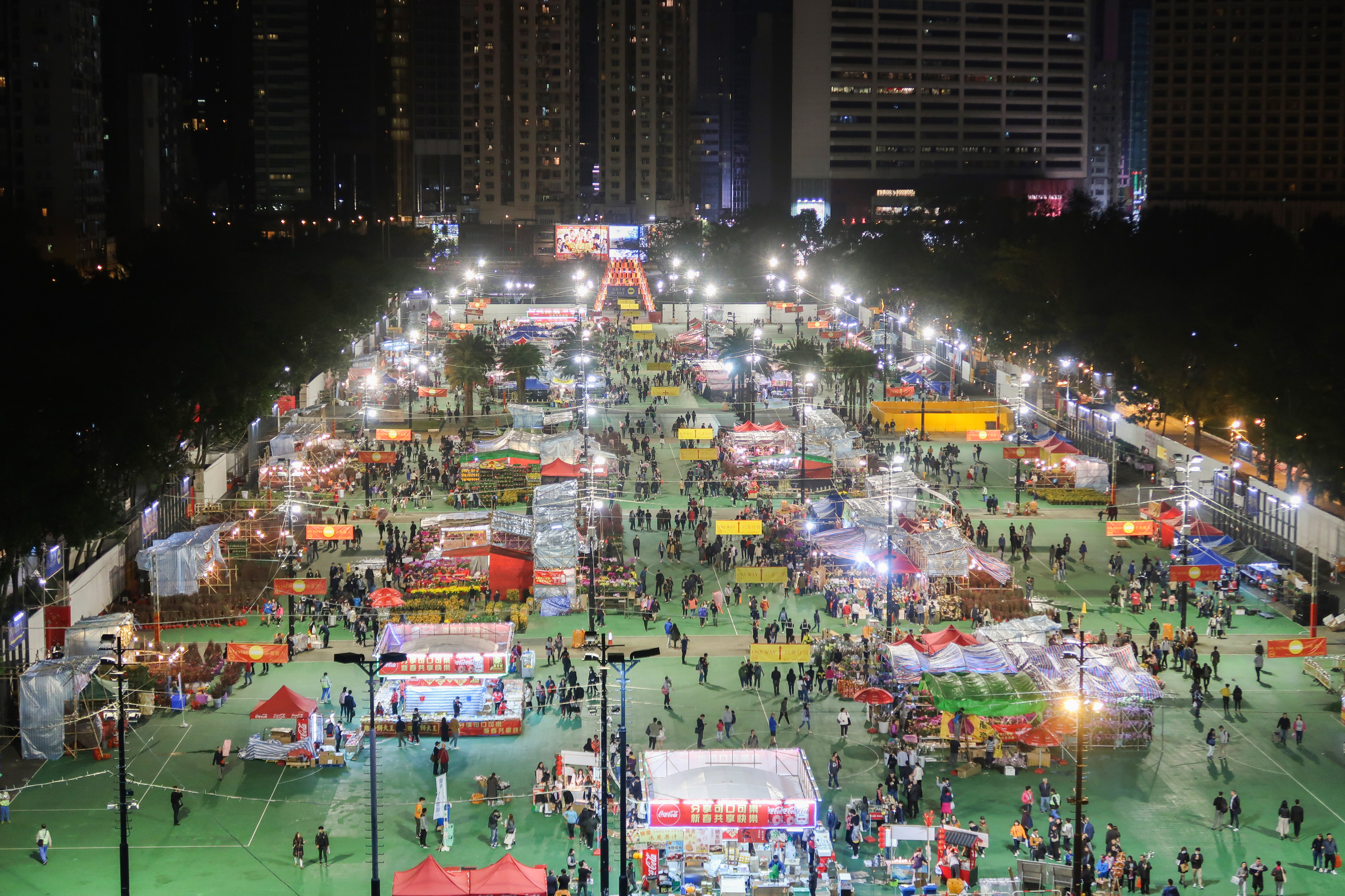 Victoria Park Market